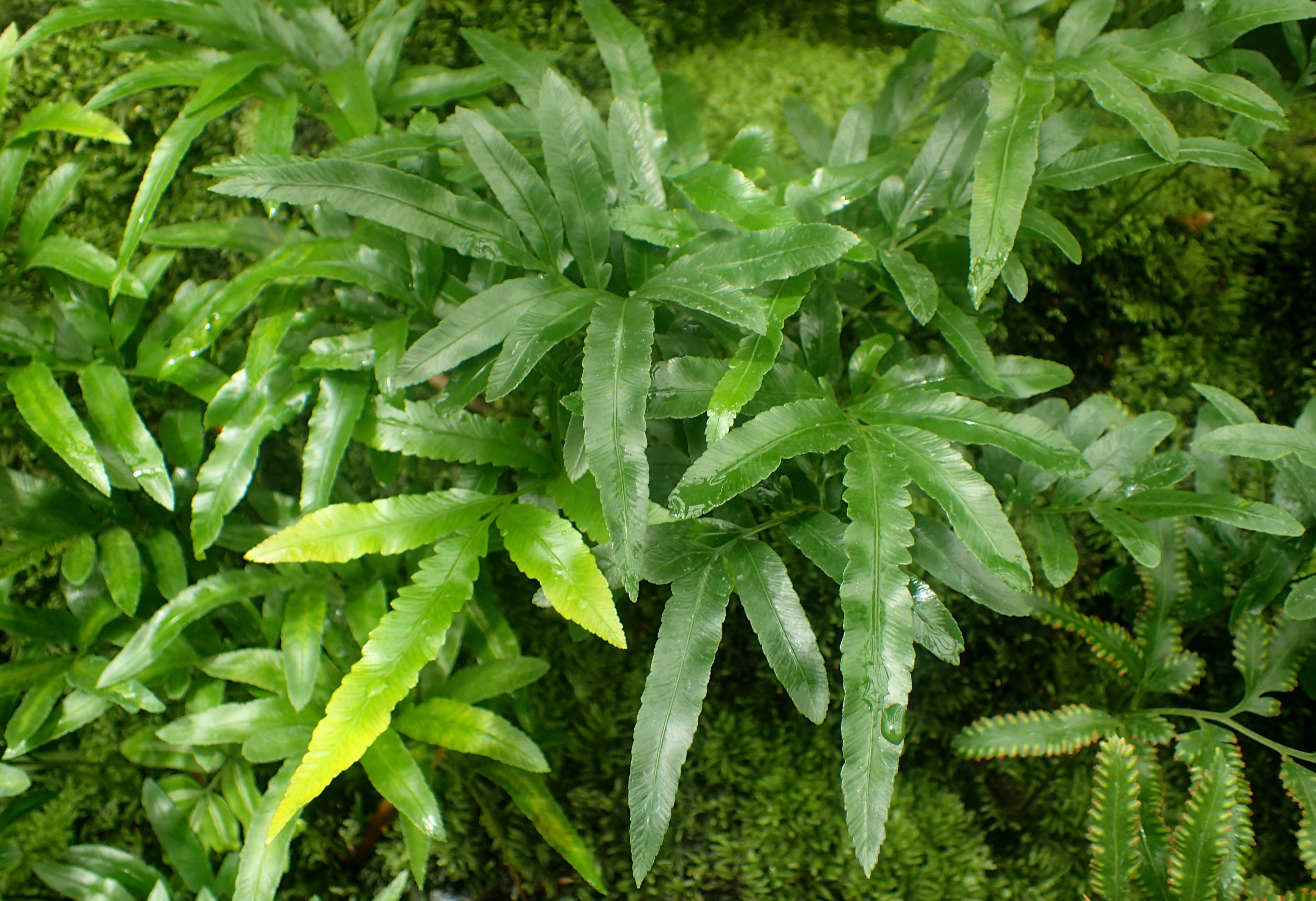 Scyphularia pentaphylla at Garfield Park Conservatory